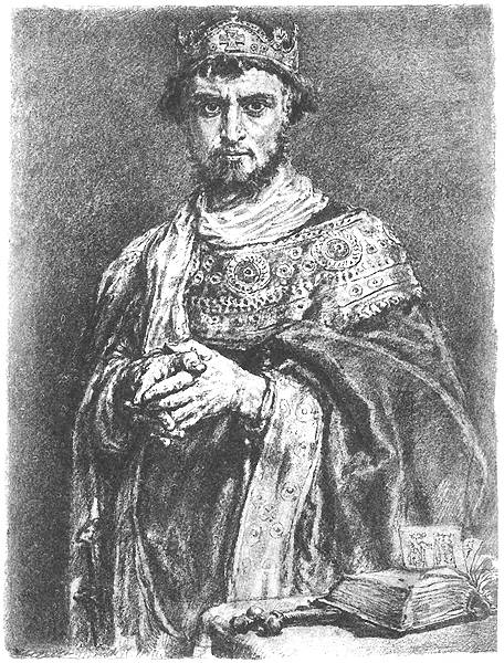 Kazimierz I Odnowiciel. Pencil drawing by Jan Matejko.